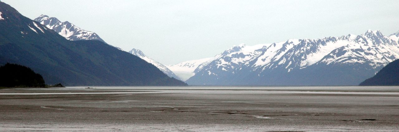 Prince William Sound